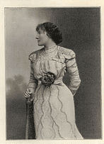 Photograph of the actress Hetta Bartlett - 'The Sketch', 20 September 1899 pg 374